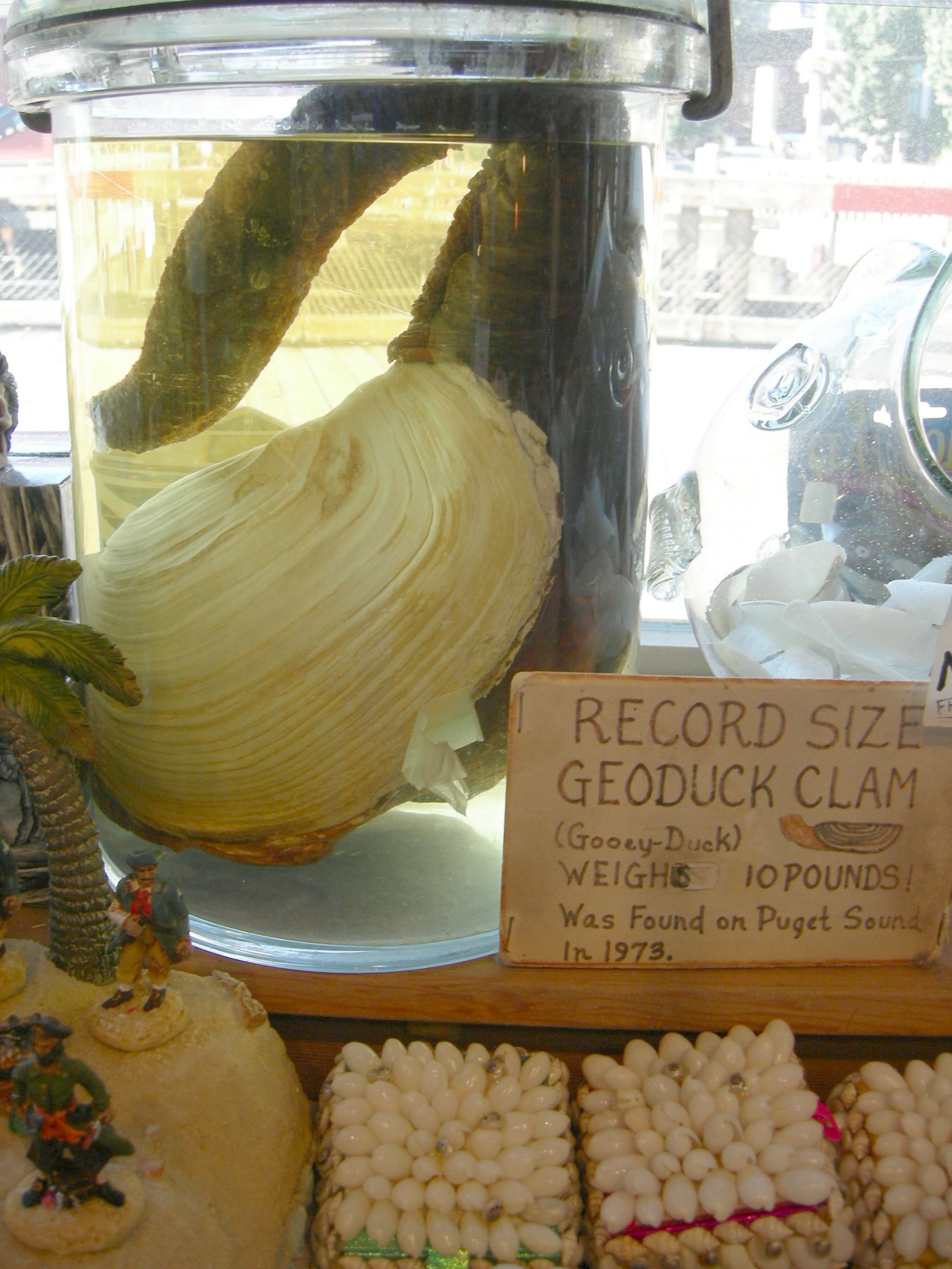 Ostensibly record-setting geoduck clam (Panopea abrupta or Panopea generosa), Ye Olde Curiosity Shop, Seattle, Washington.